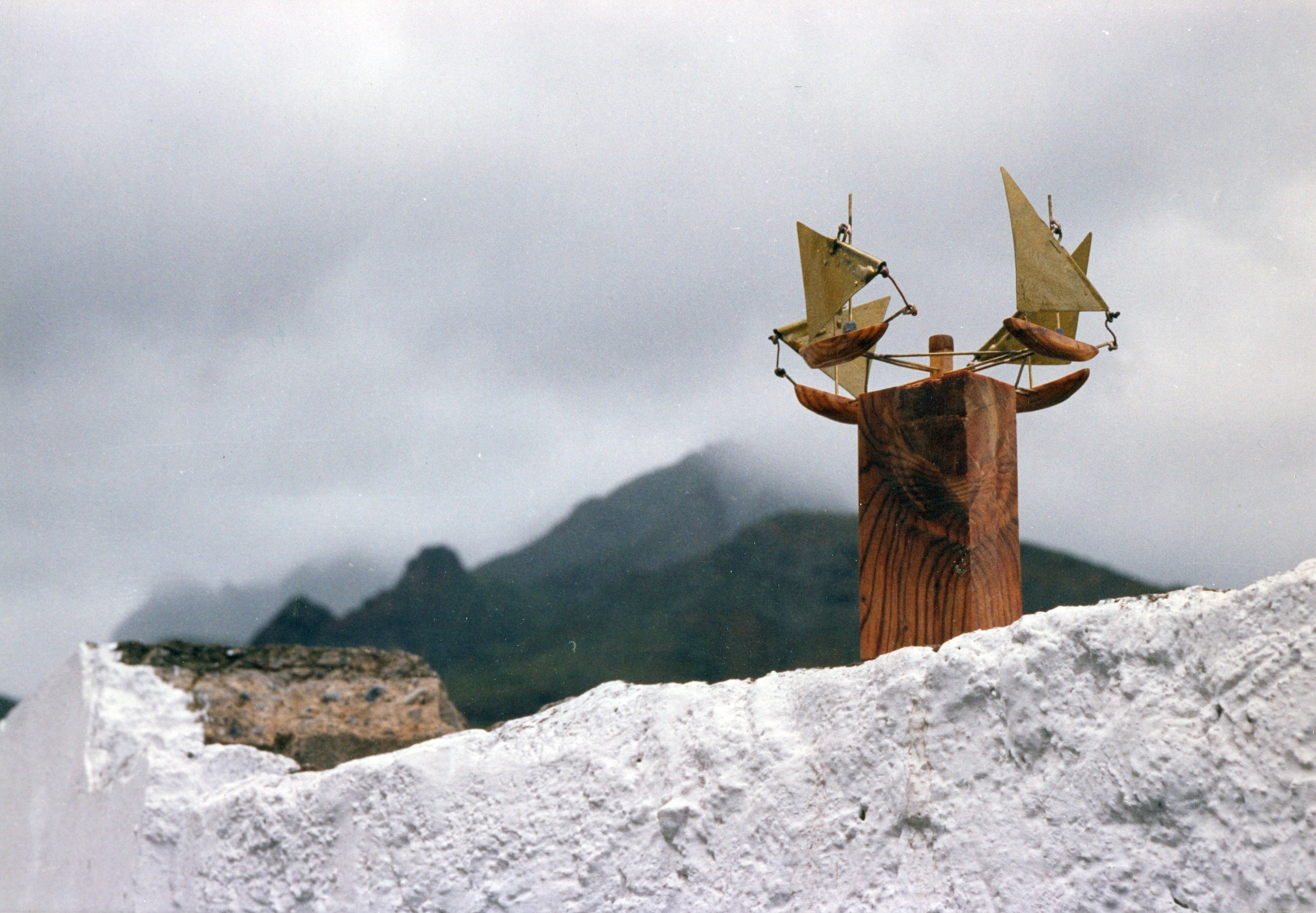 Whirligig